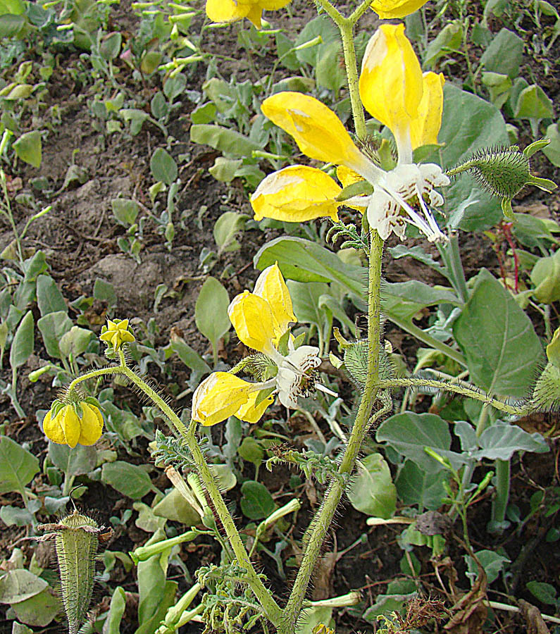 From a fog-watered area north of Lima. In context at